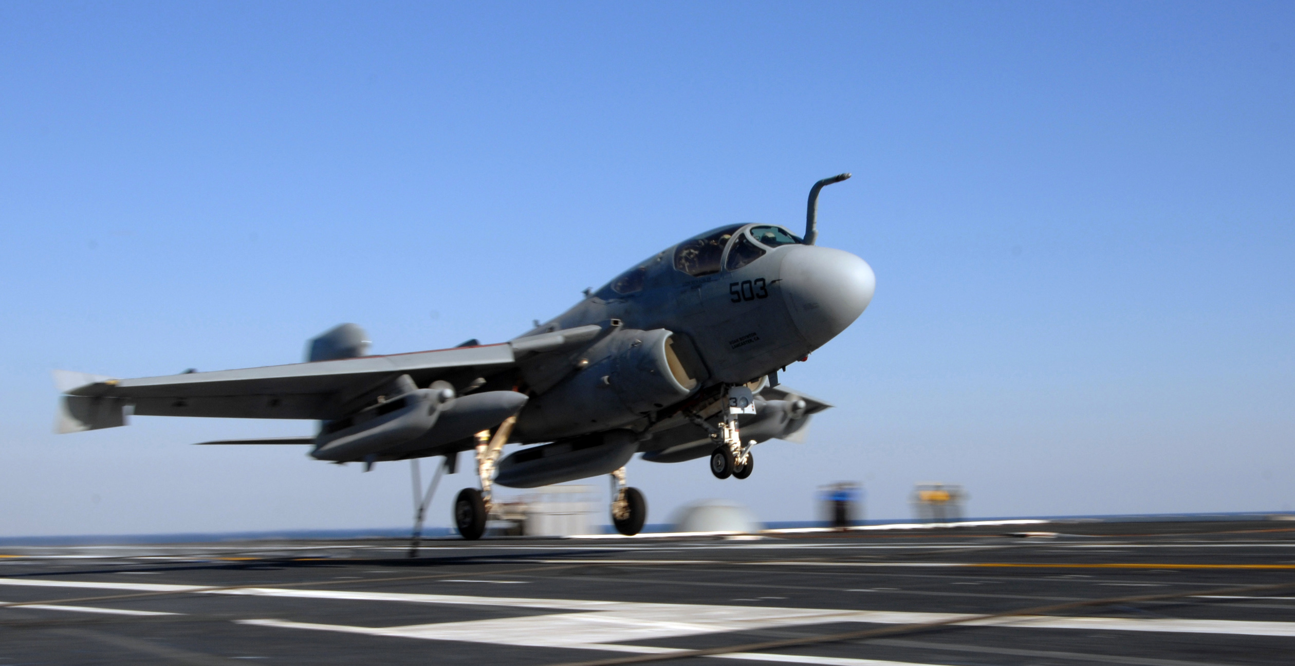 ATLANTIC OCEAN (Nov. 5, 2007) - An EA-6B Prowler, attached to Tactical Electronic Warfare Squadron (VAQ) 130, makes an arrested landing on the flight deck of Nimitz-class aircraft carrier USS Harry S. Truman (CVN 75). Truman is a part of Carrier Strike Group (CSG) 10 and is en route to the Central Command area of responsibility as part of the ongoing rotation to support maritime security operations in the region. U.S. Navy photo by Mass Communication Specialist Seaman Justin Lee Losack (RELEASED)